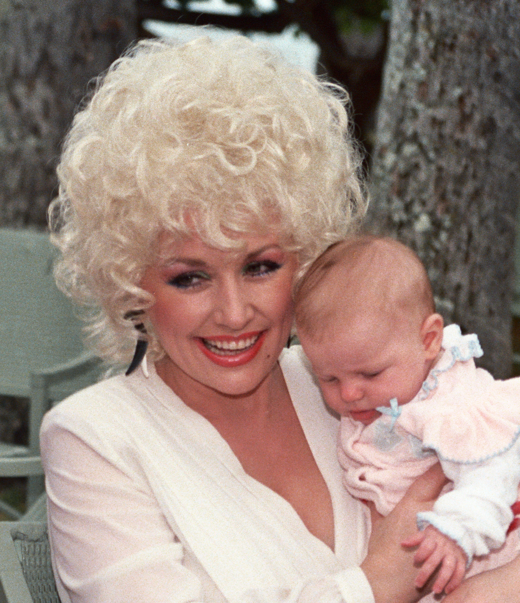 Dolly Parton at the Kahala Hilton Hotel, Honolulu, Hawaii